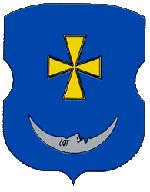 Coat of arms of Shyshaky